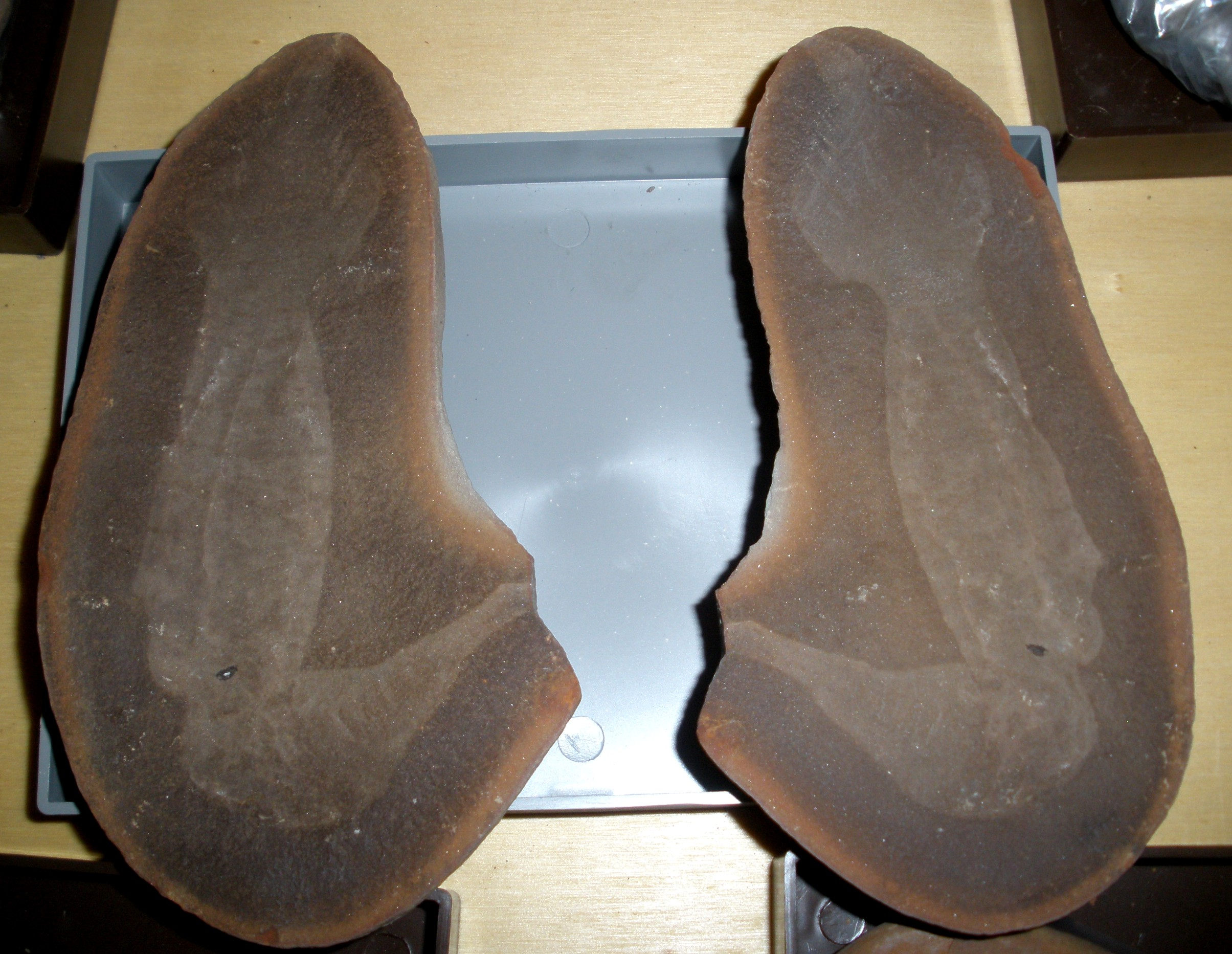 Fossil of Tullimonstrum gregarium, an extinct animal in the Museo di Storia Naturale, Milano